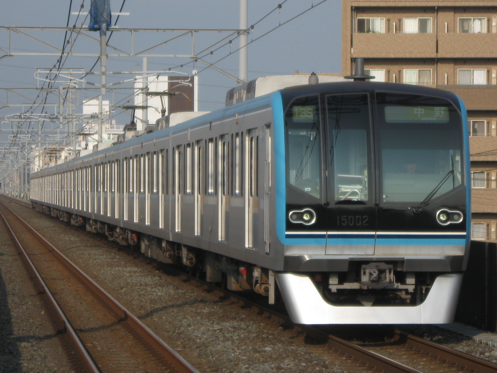 Tokyo Metro 15000 series EMU set 15102 approaching Minami-Gyōtoku Station on the Tozai Line